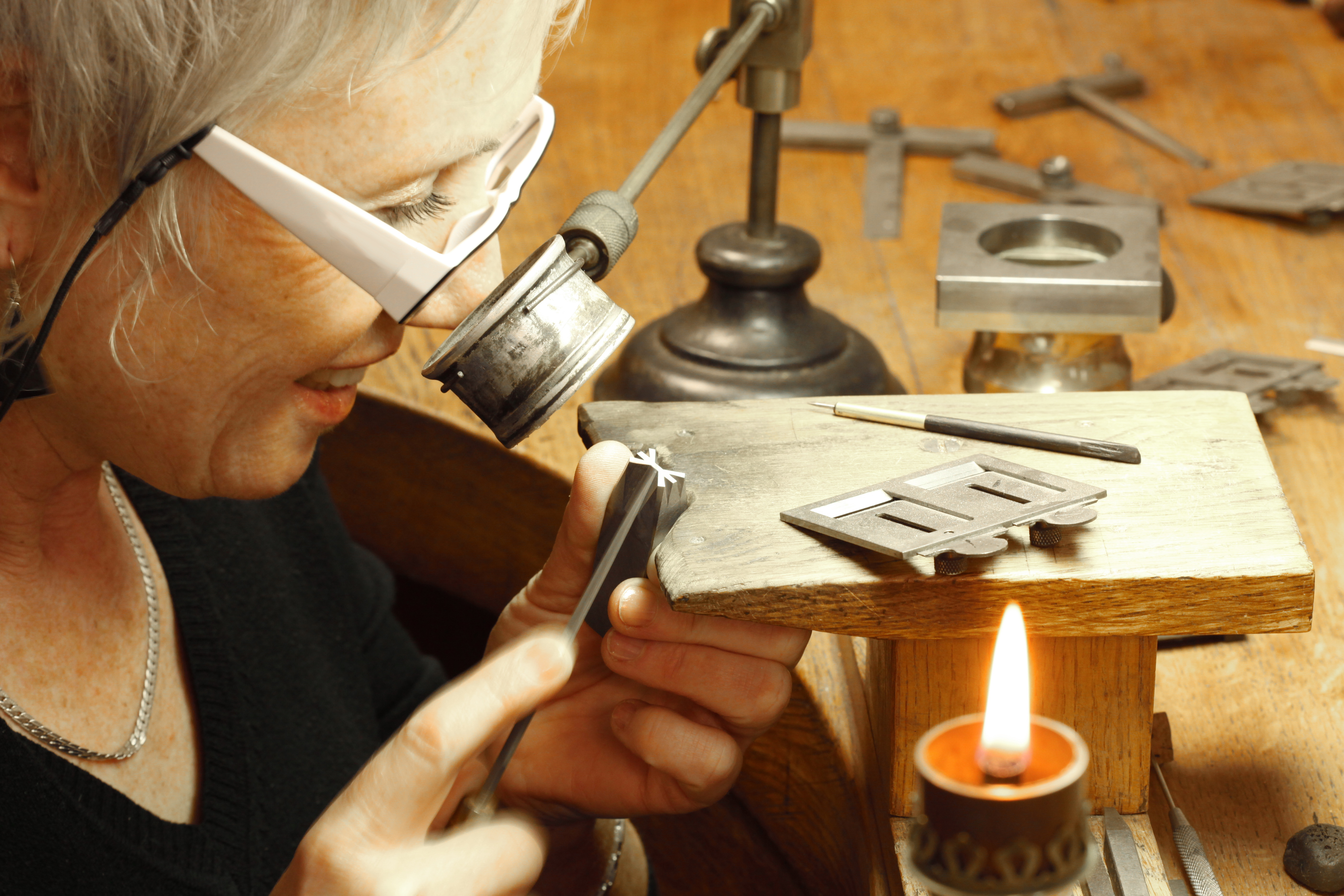 Showing how punches were engraved. Original description in